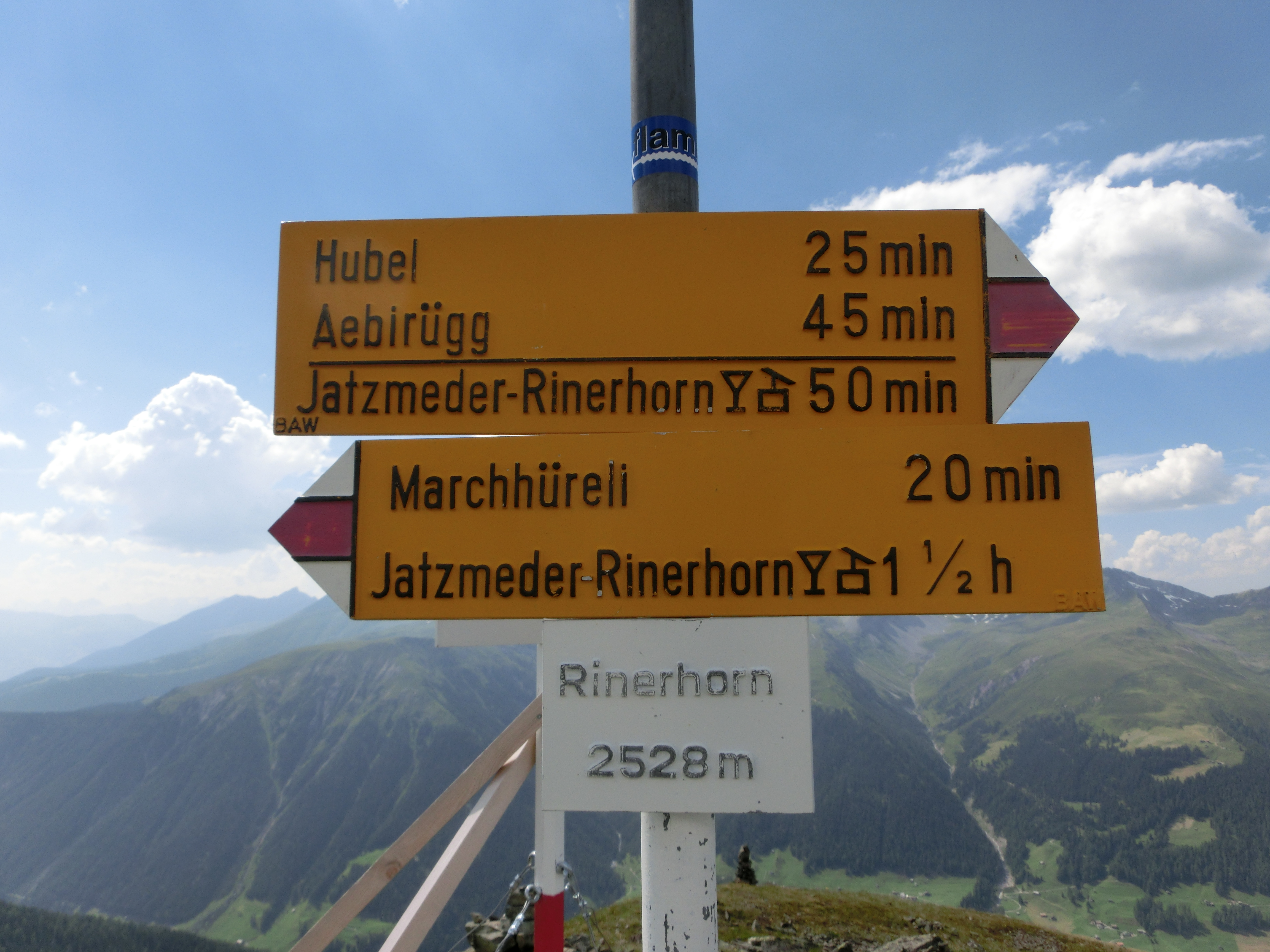 Fingerpost on Rinerhorn, Davos, Grison, Switzerland Rumantsch: Tavla segl Rinerhorn, Tavo, Grischun, Svizra